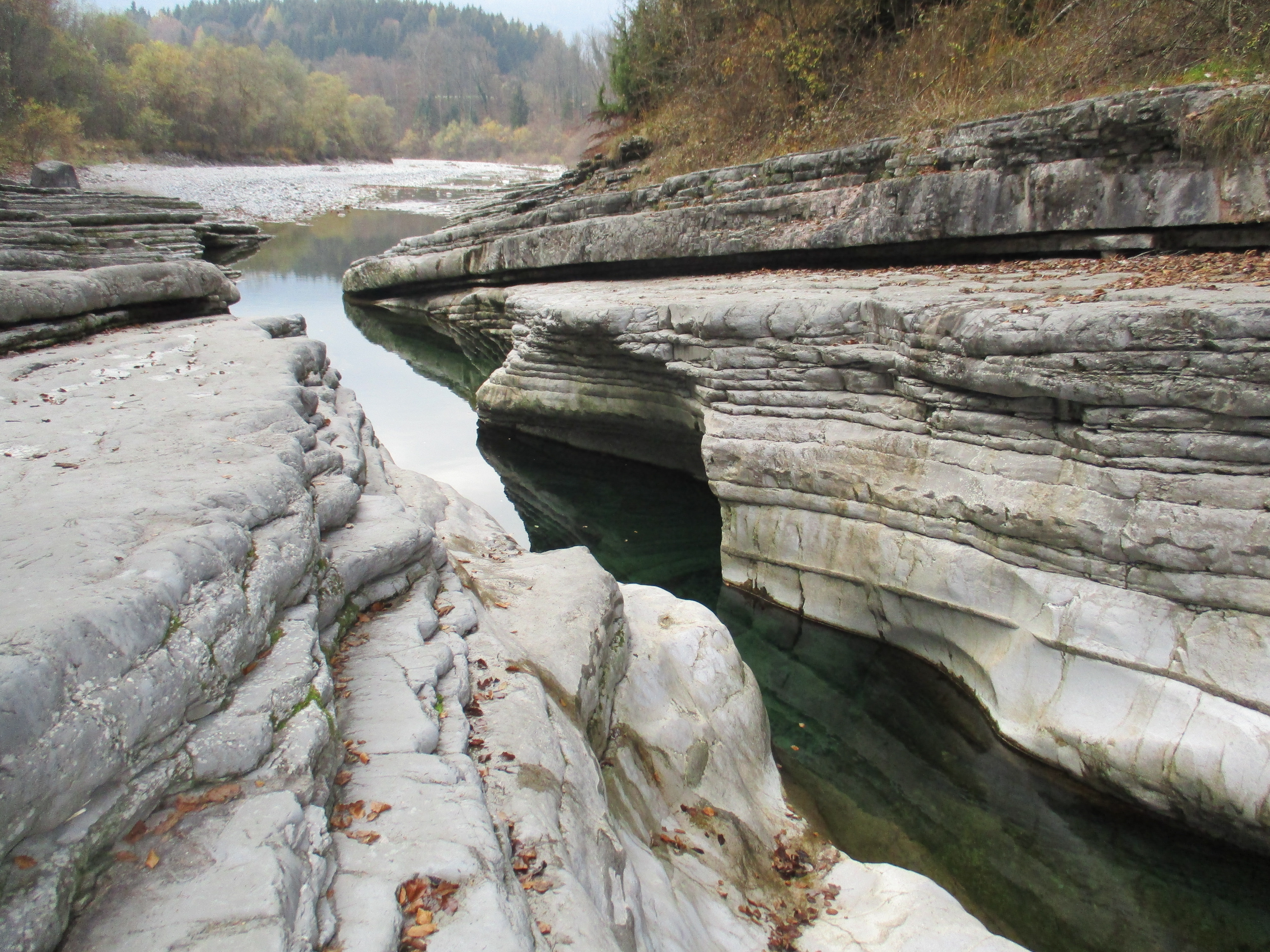 Layers of chalkstone erodet by river